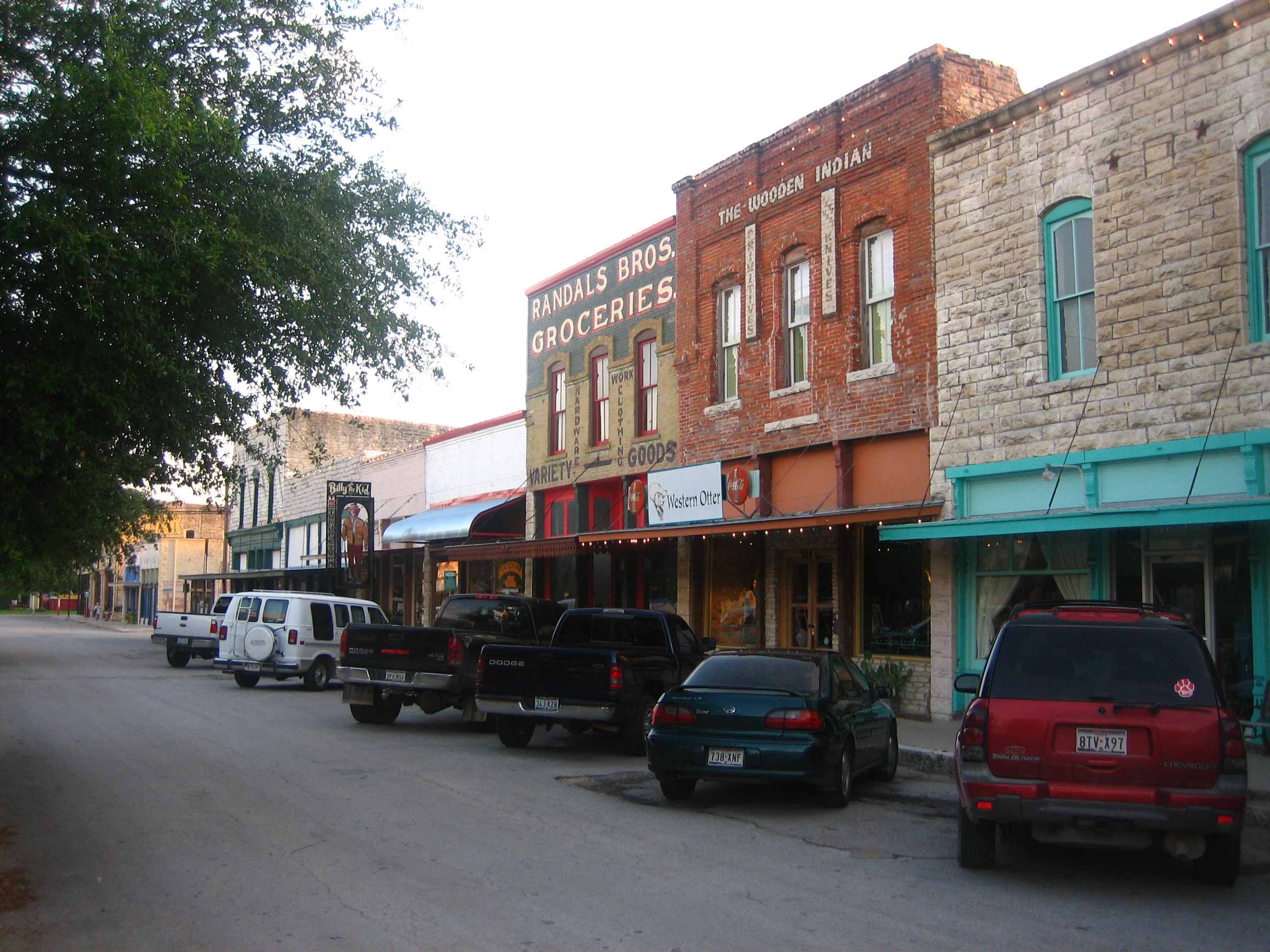 I took photo on July 16, 2008.Billy Hathorn (talk) 01:02, 25 July 2008 (UTC)